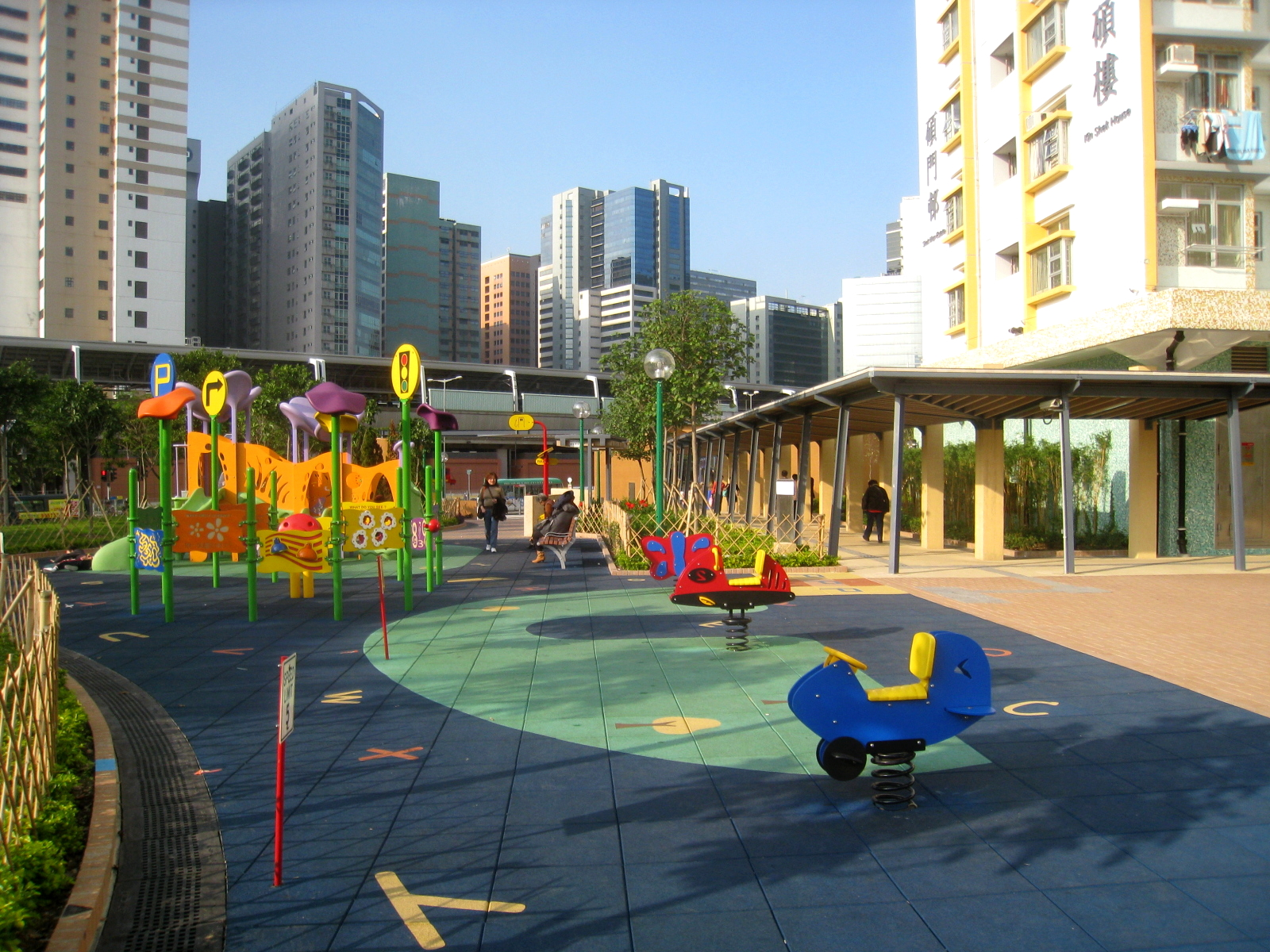 Shek Mun Estate Playground